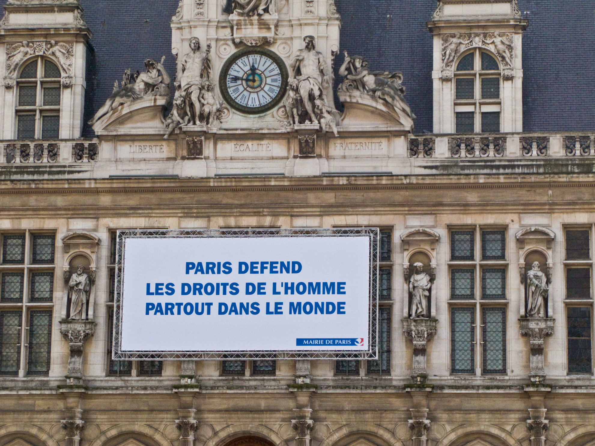 "Paris defends human rights around the world", banner on the Hôtel de Ville whilst the 2008 Summer Olympics torch relay was in the city.